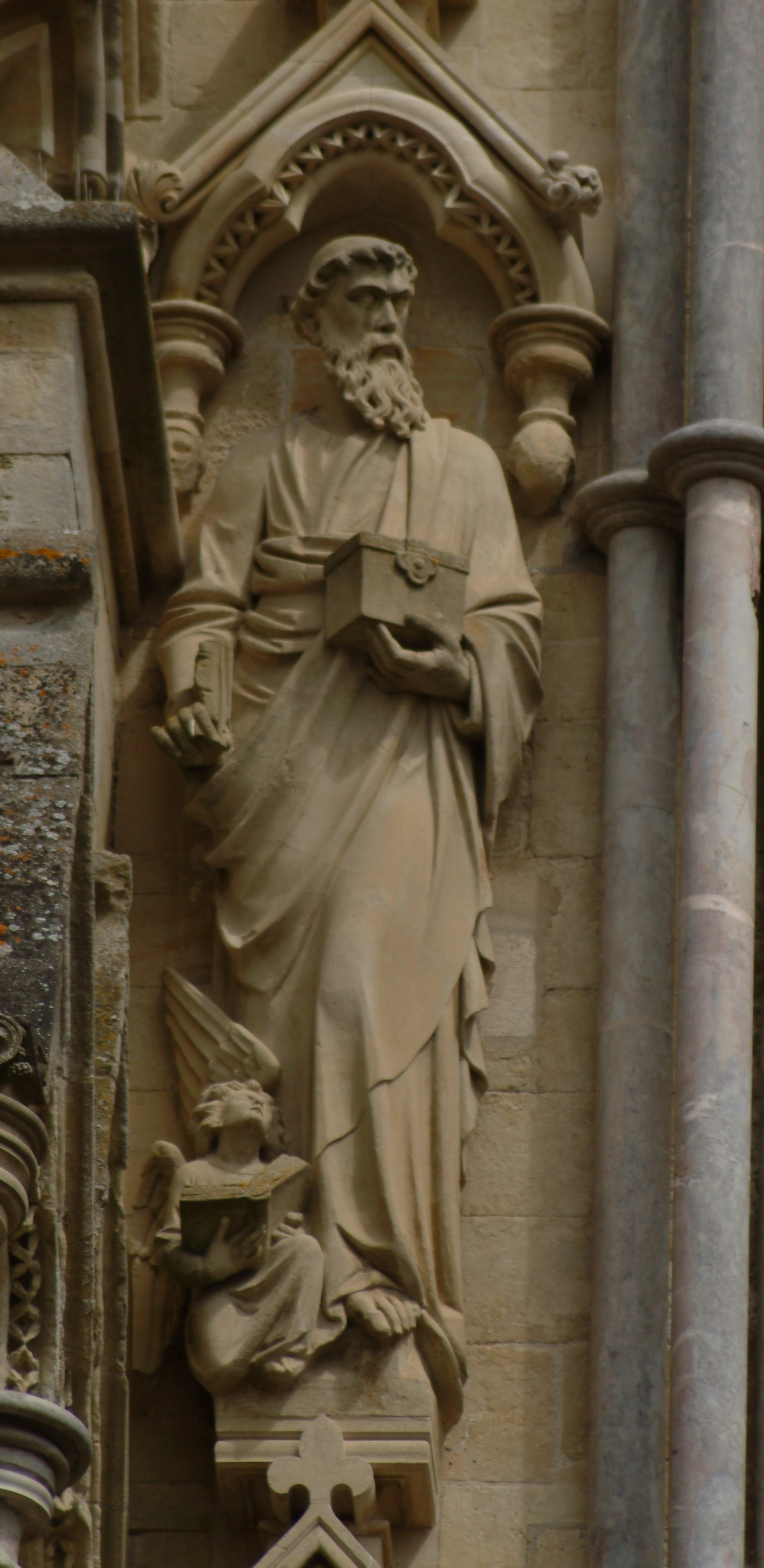 Statue of St Matthew the Evangelist on the West Front of Salisbury Cathedral, UK.